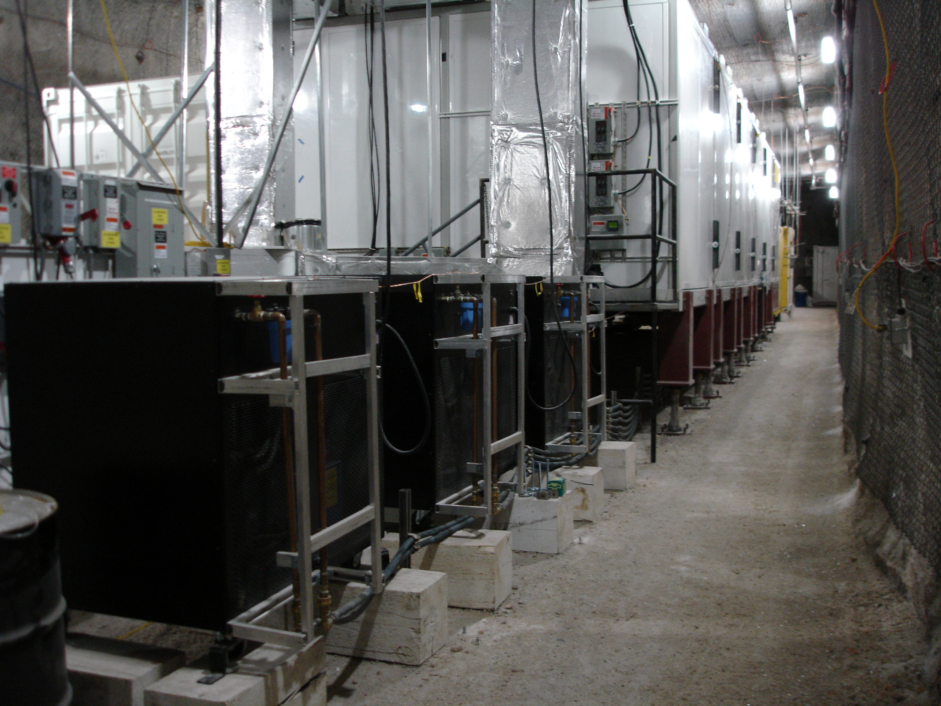 Photo of the underground EXO-200 laboratory.